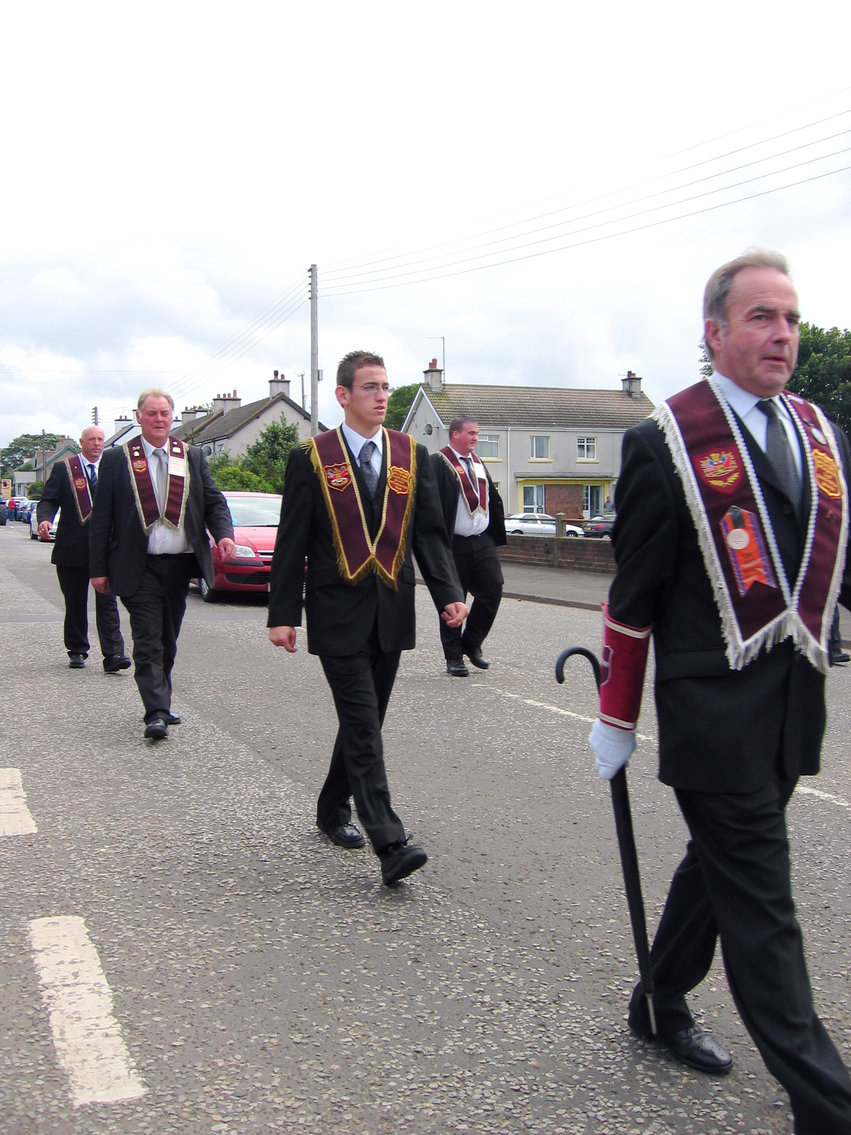 One of the many orders of Protestant marchers in Northern Ireland in Bushmills (home of the whisky).Apprentice Boys